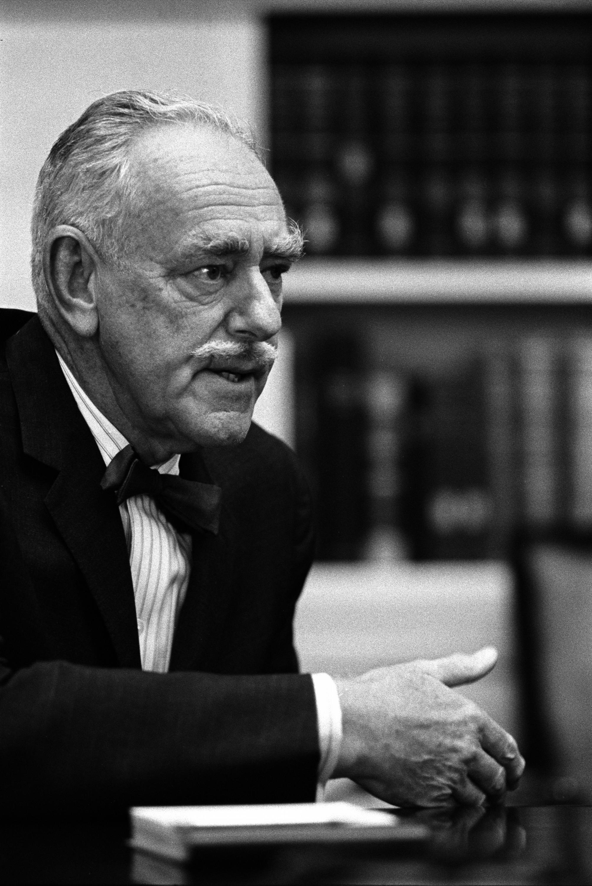 Dean Acheson at Meeting of President's consultants on Foreign Affairs (The Wise Men)